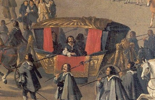 Francisco de Mello e Torres (c.1610-1667), Portuguese nobleman and Ambassador Extraordinary to England during Catherine of Braganza's wedding to Charles II of England.